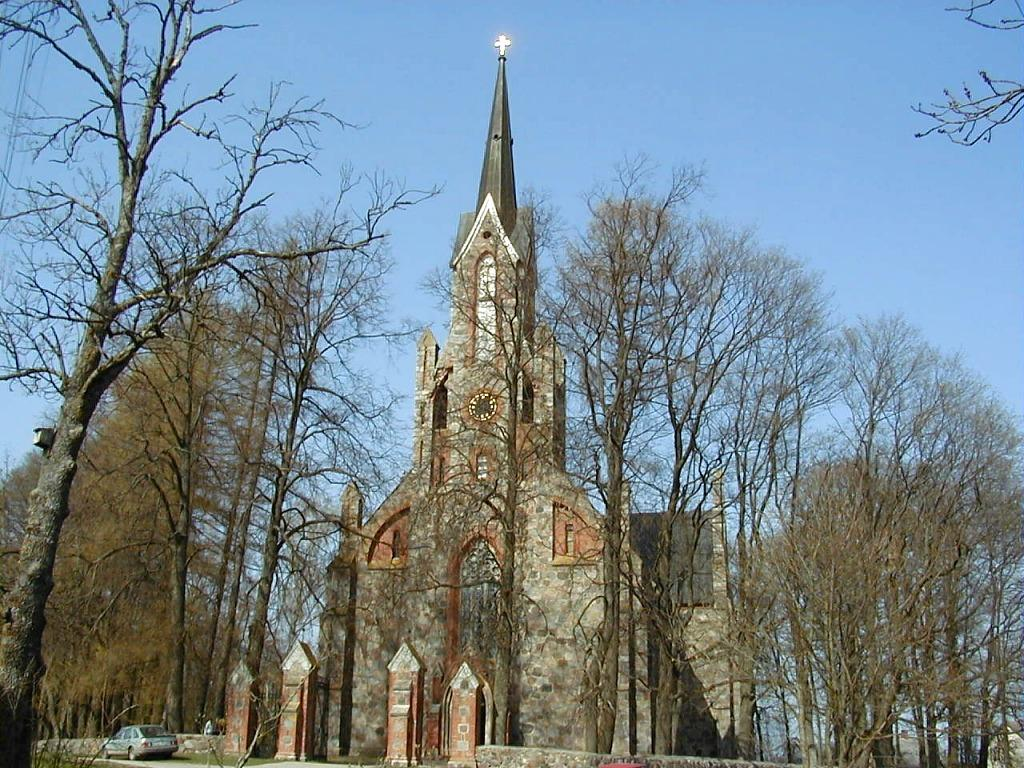 Cesvaine Evangelical Lutheran Church